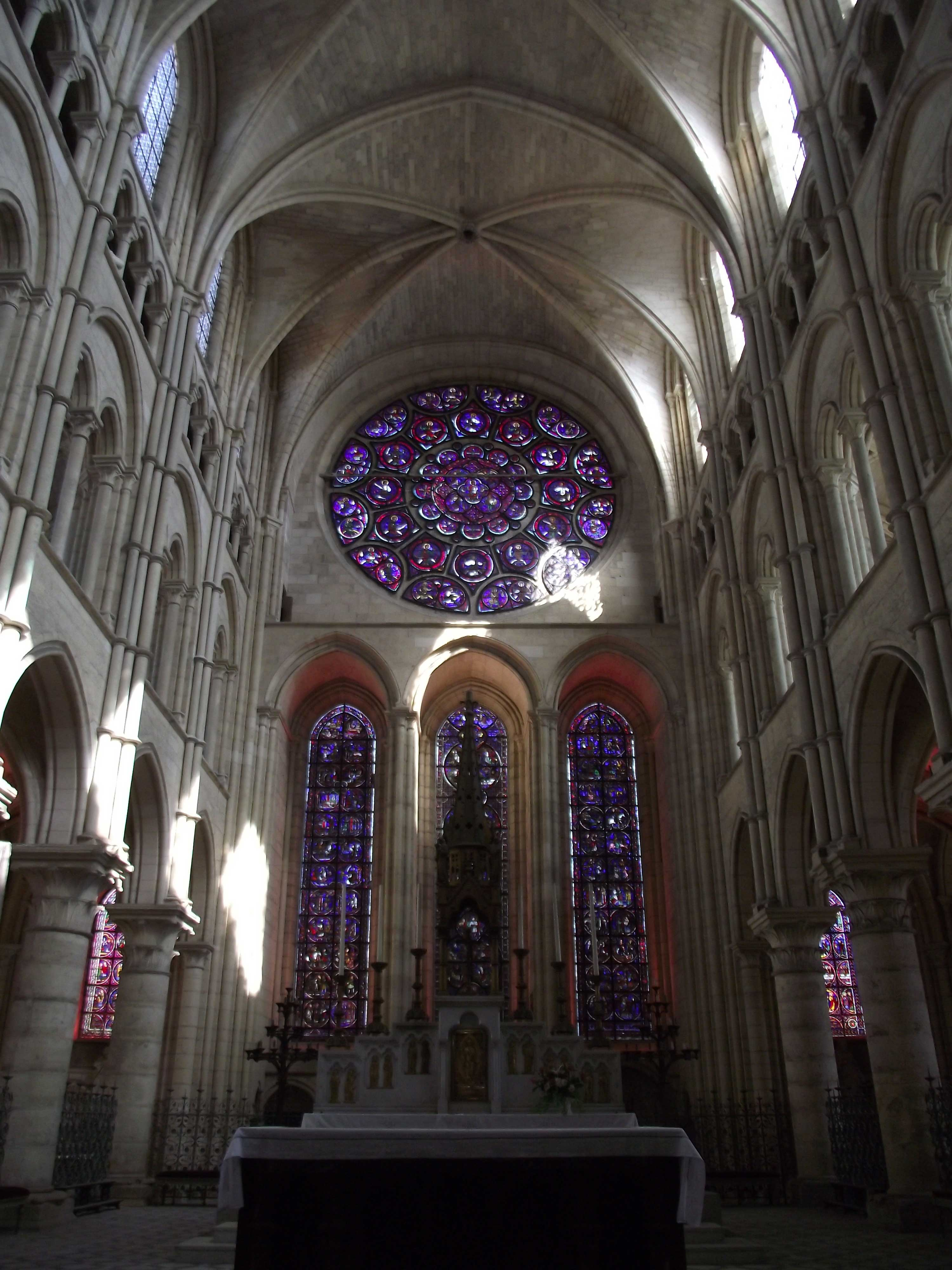 Laon, Cathedral of Our Lady, 1155-1225